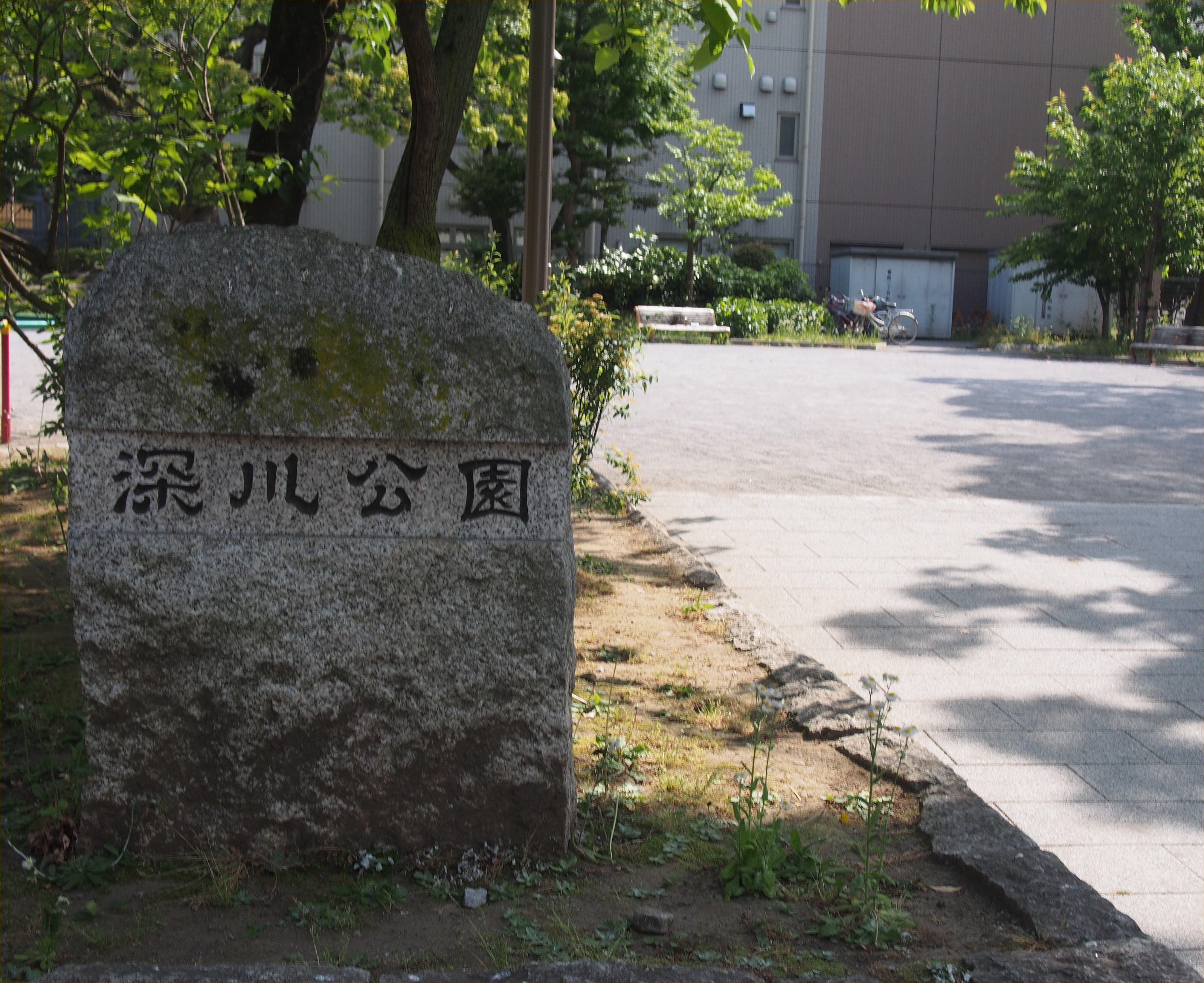 A photo of Fukagawa Park,Tomioka,Koto-ku,Tokyo,Japan.